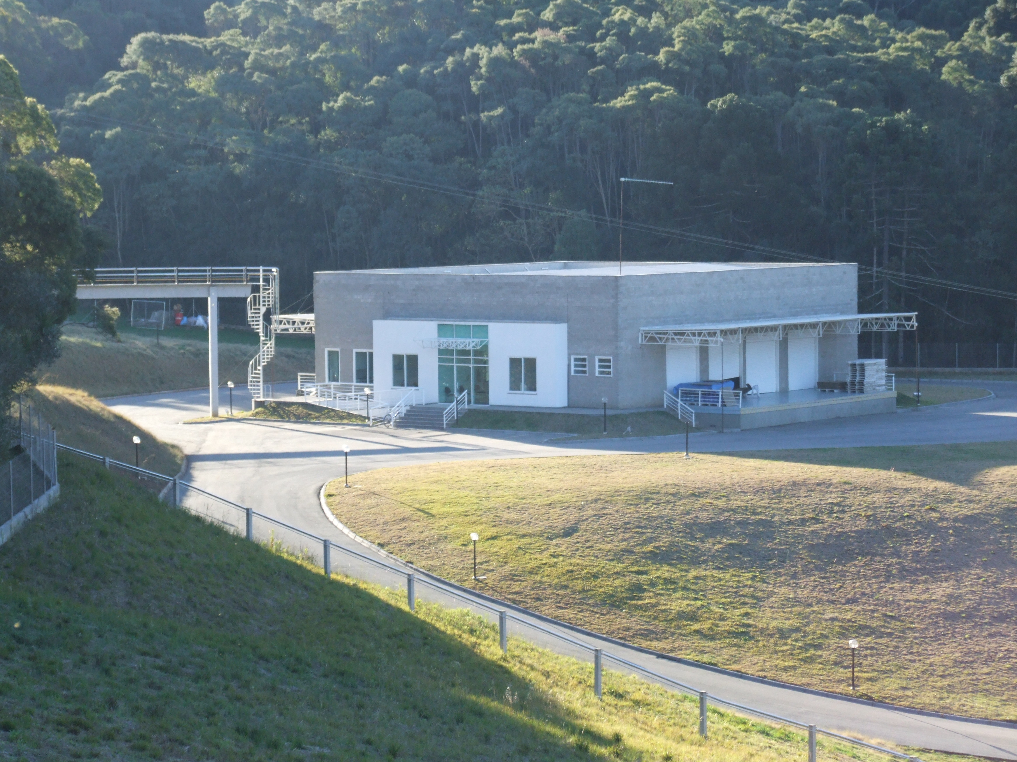 Clari Mineral Water Headquarters in Almirante Tamandaré countryside, Paraná, Brazil